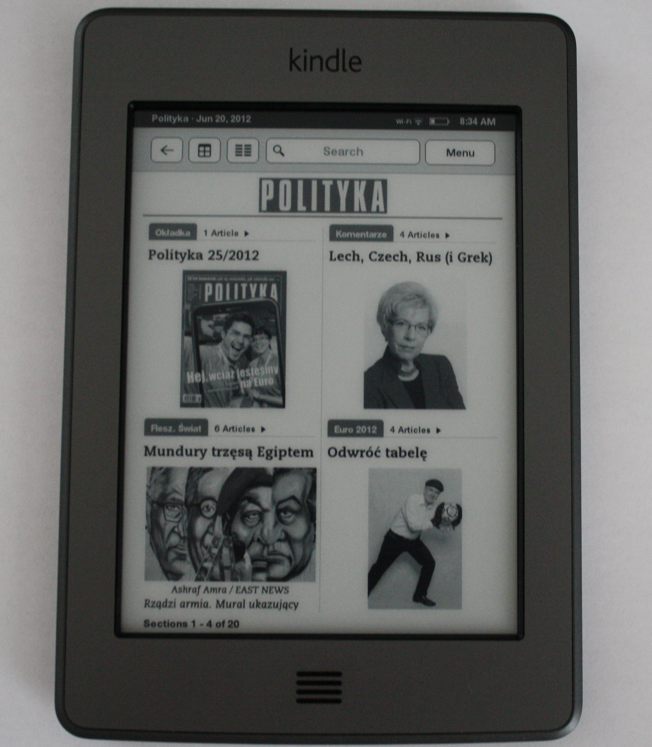 Kindle Touch